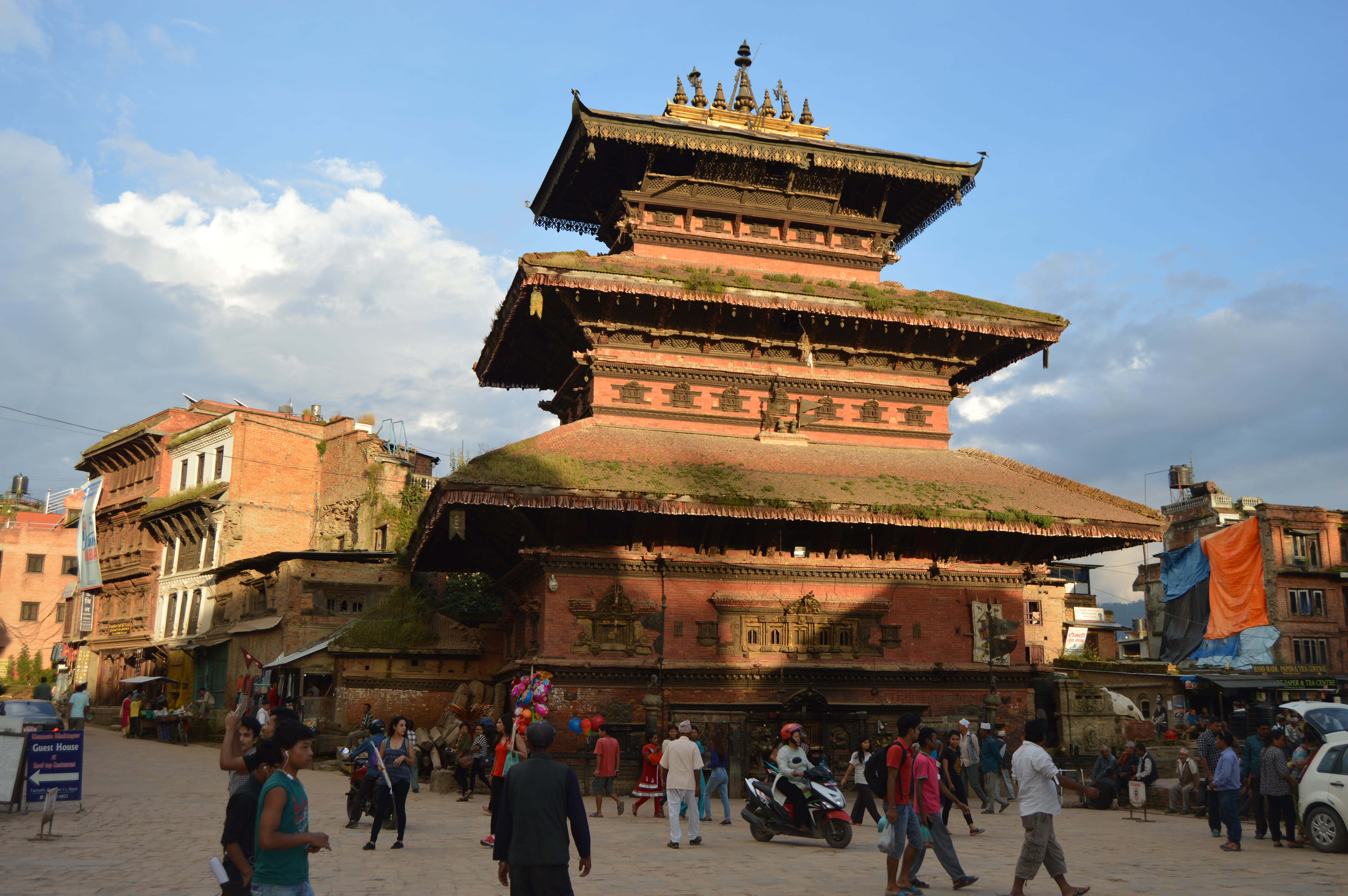 Bhairavnath Temple